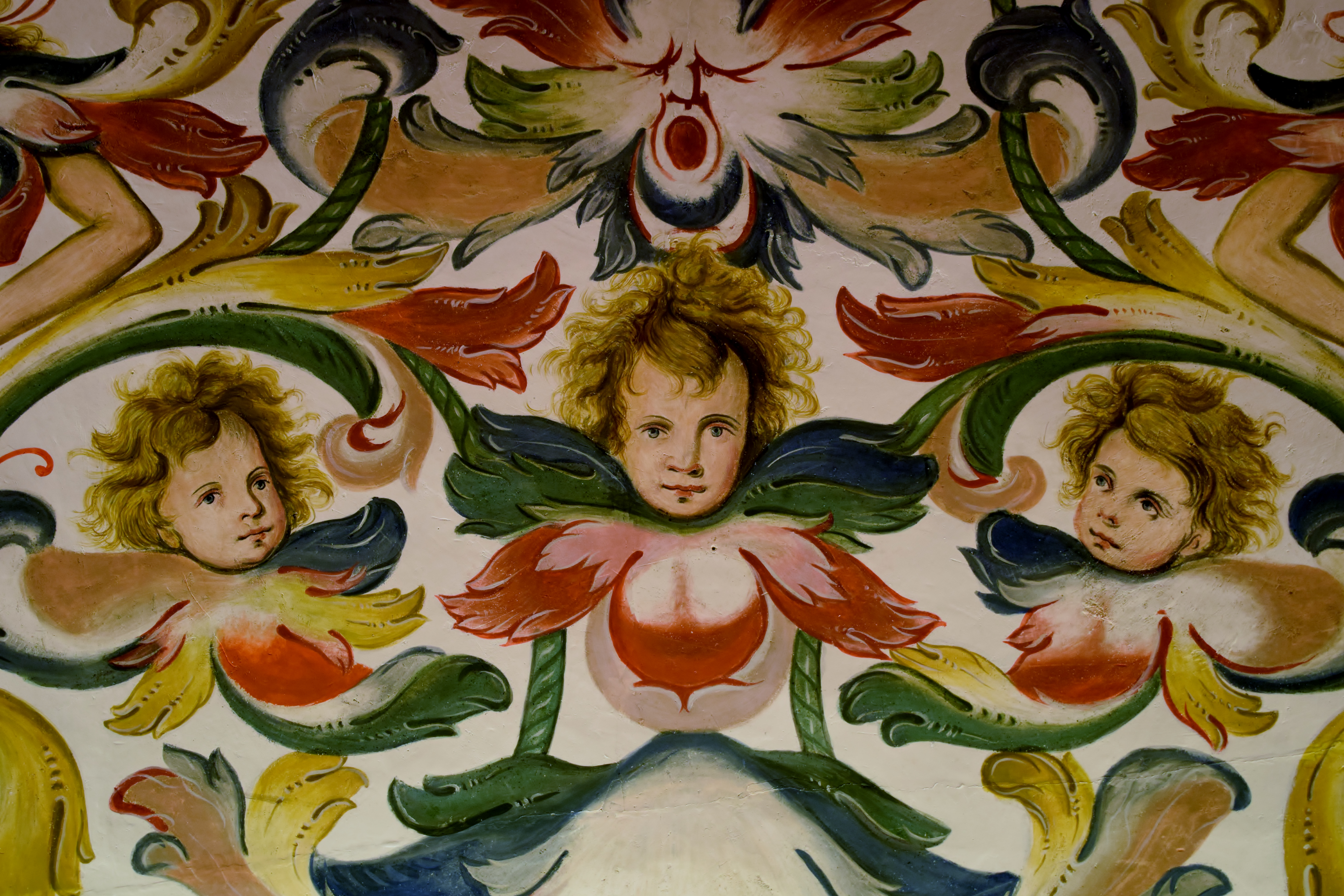 Roof painting in the Milà i Aragó Palace.